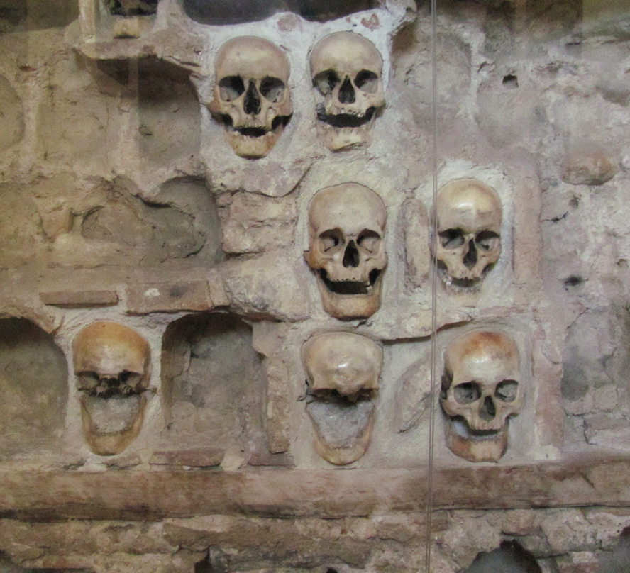 The Skull Tower in Nis